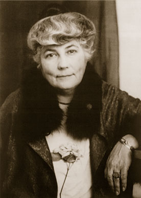 Helena Ivanovna Roerich. Naggar, India